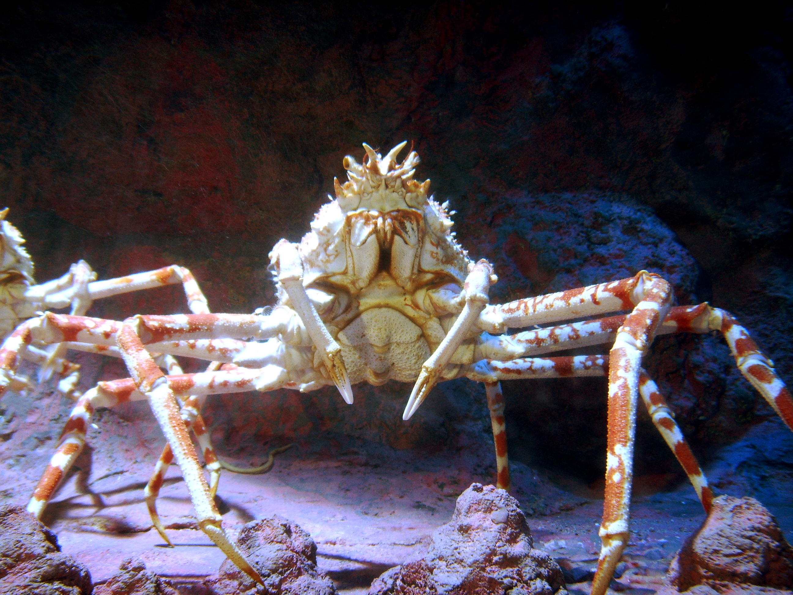 The Japanese spider crab. Photo taken at Underwater World, Singapore, 26 November 2005.